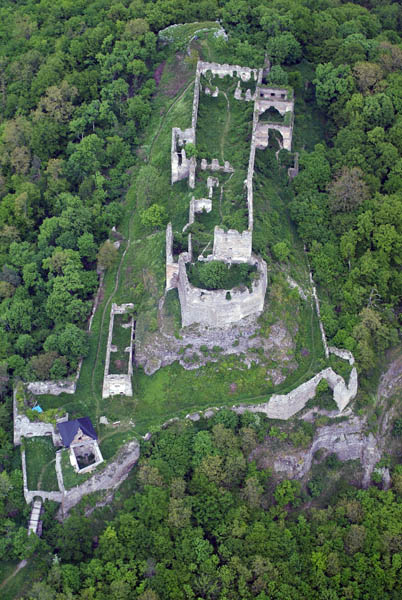 Čabradský Vrbovok, castle, Slovakia, aerial photography